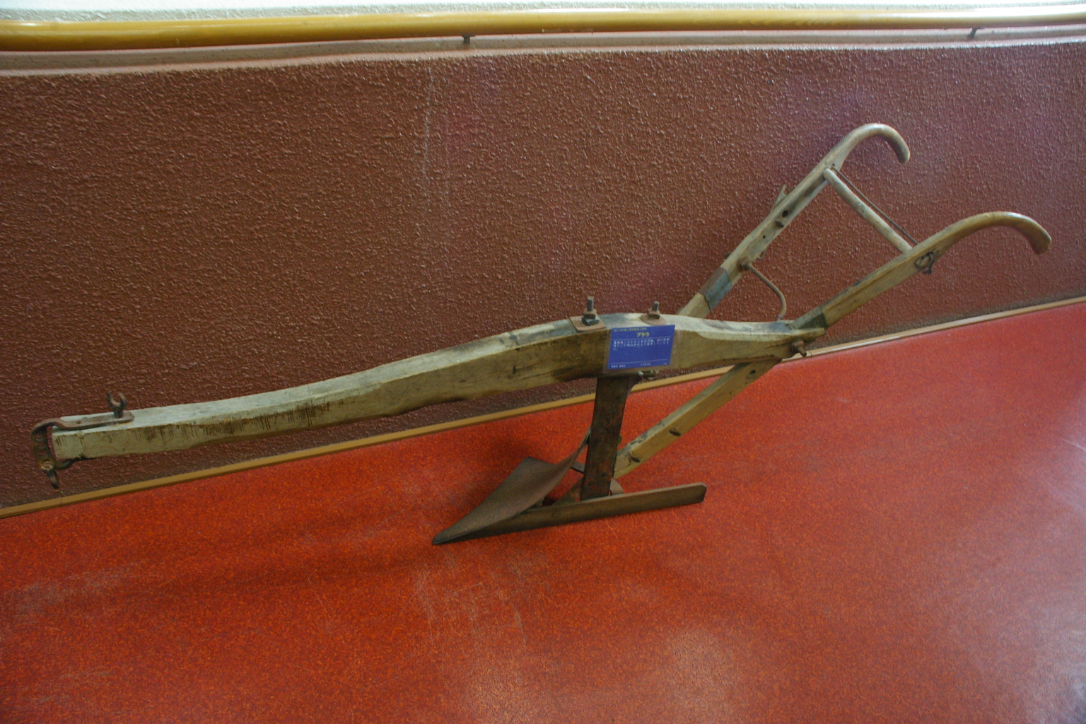 Wooden plough displayed at the Obira Town Local History Museum, Hokkaido, Japan